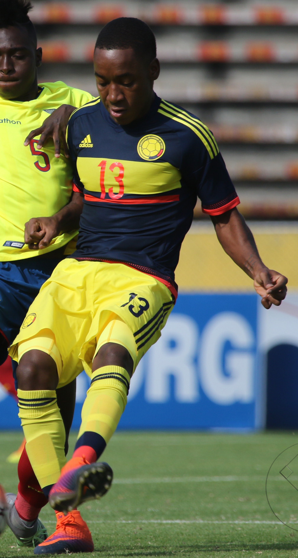 ECUADOR vs COLOMBIA SUB 20